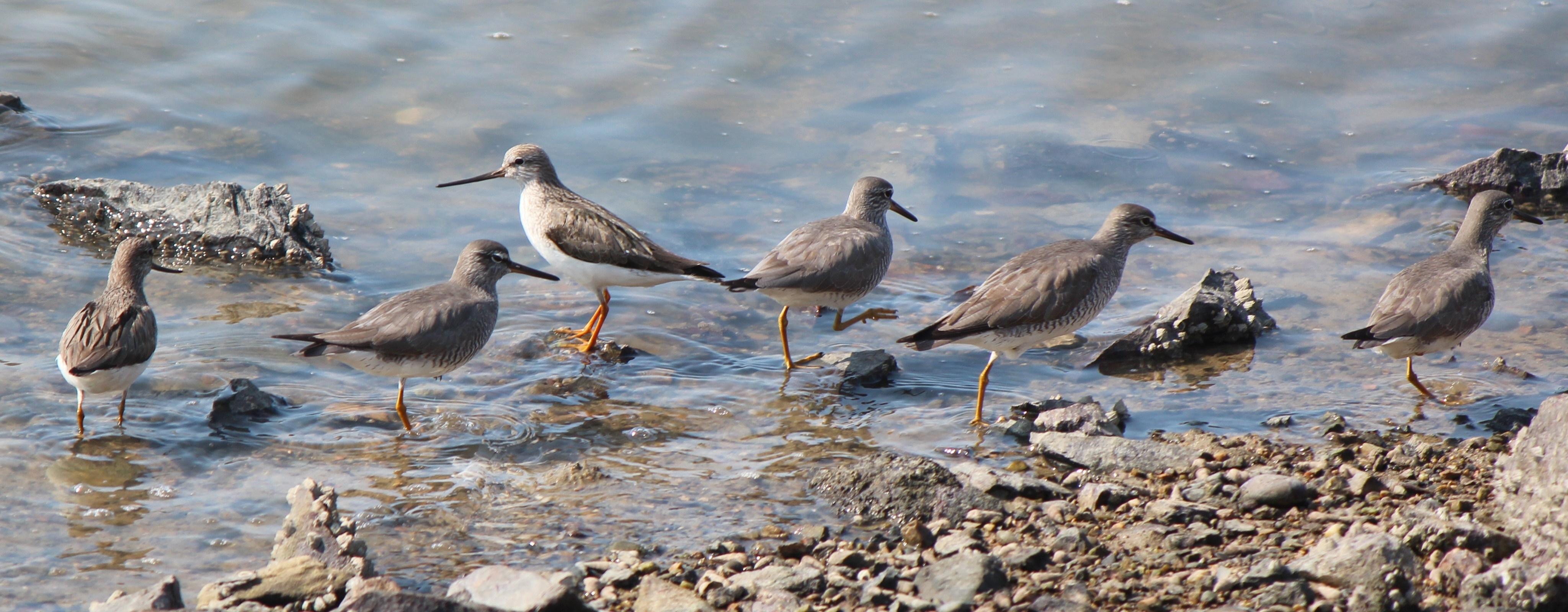 Tringa brevipes (Grey-tailed Tattler) flocks and Xenus cinereus walking on seashore, in Japan.